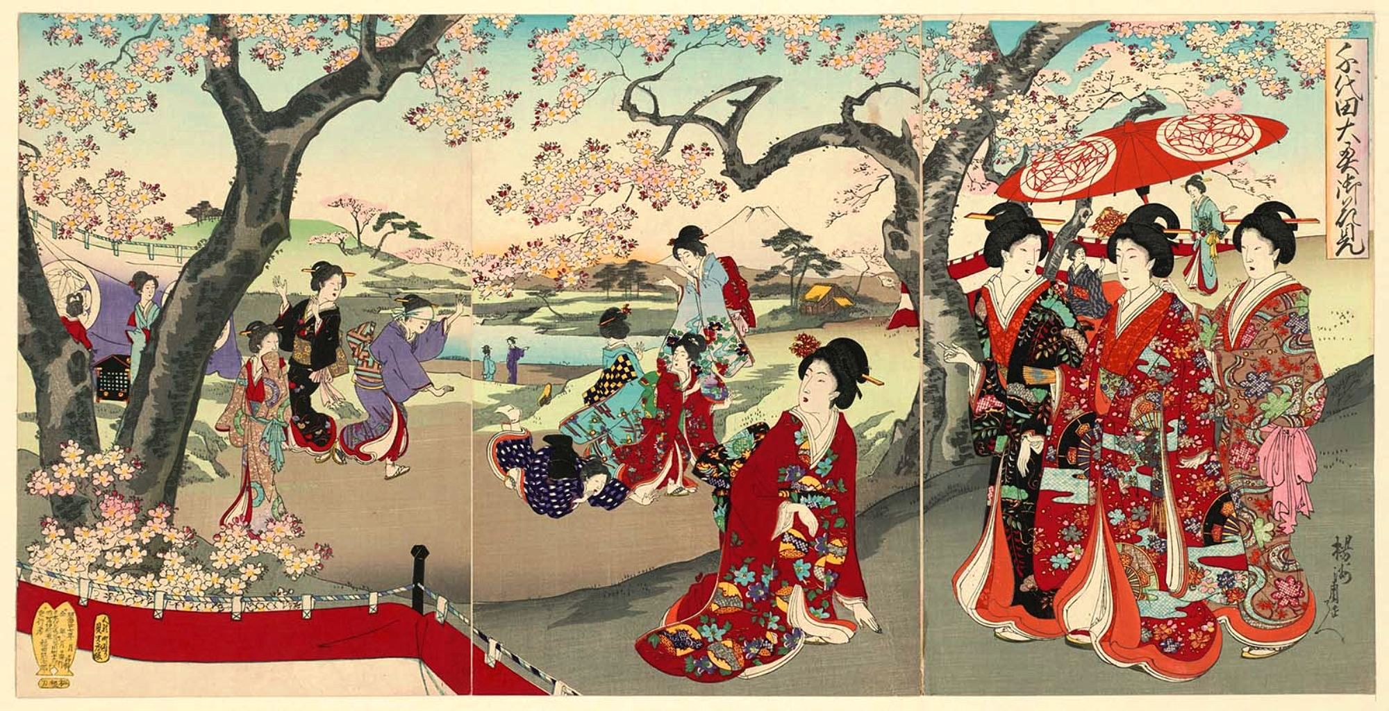 Chiyoda Ooku Ohamami